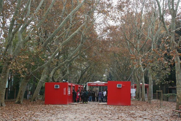 Bienale in Venice 2010